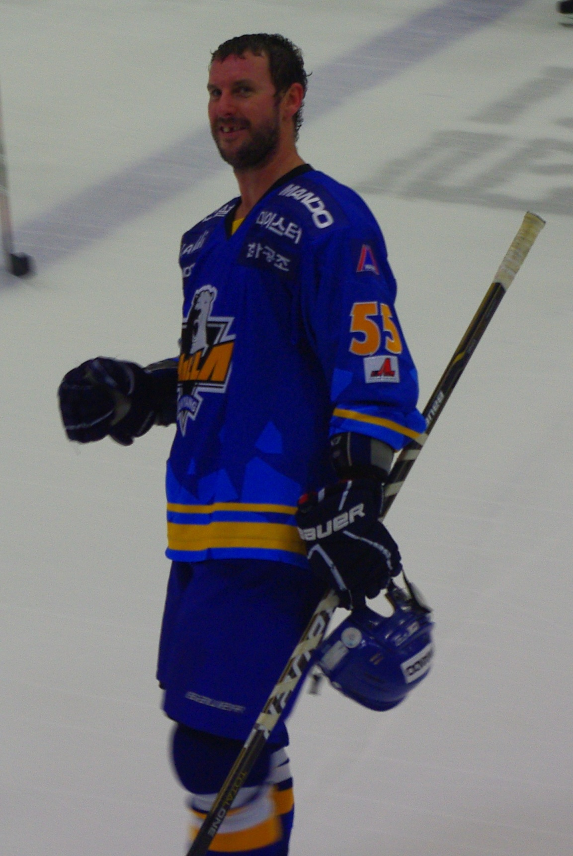 Ric Jackman wearing an Anyang Halla Jersey